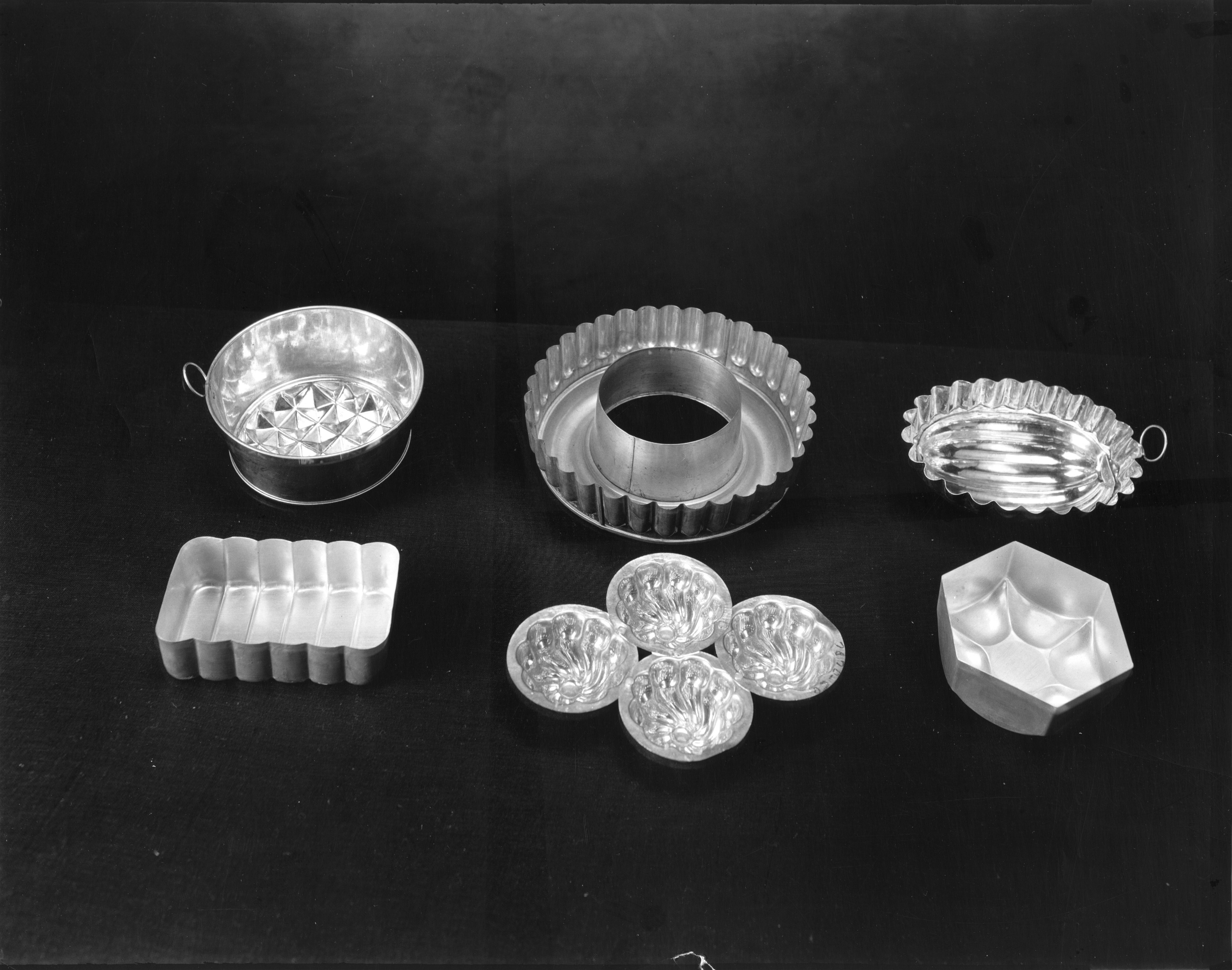 Collection: Human Ecology Historical Photographs Title: Cake and mold pans. Collection #23-2-749, item PR-RC-19 Div. Rare & Manuscript Collections, Cornell University Library Persistent URI: There are no known U.S. copyright restrictions on this image. The digital file is owned by the Cornell University Library which is making it freely available with the request that, when possible, the Library be credited as its source.